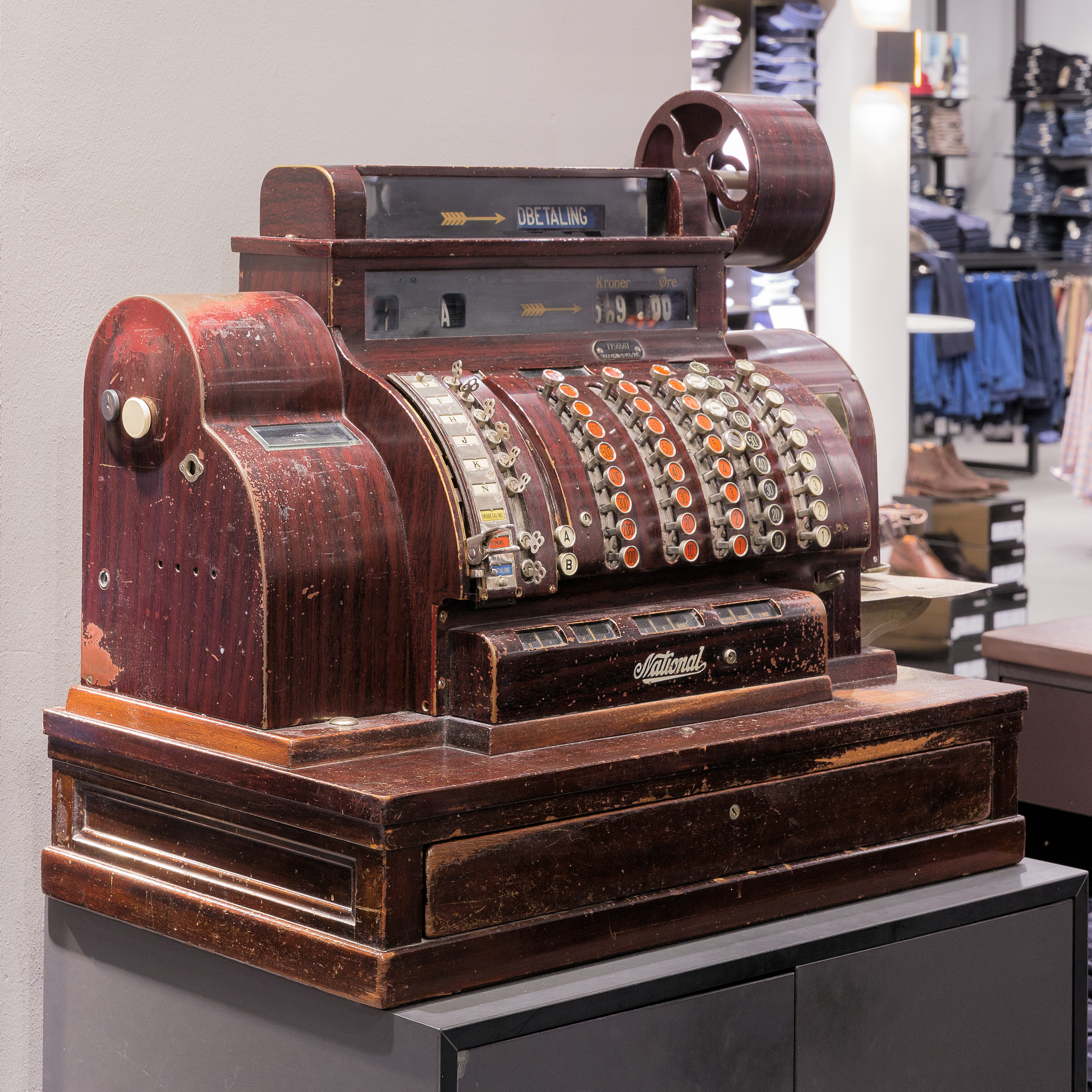 The oldest cash register which is in use in Denmark, is in menswear store Harder in Aarhus and is from 1917.